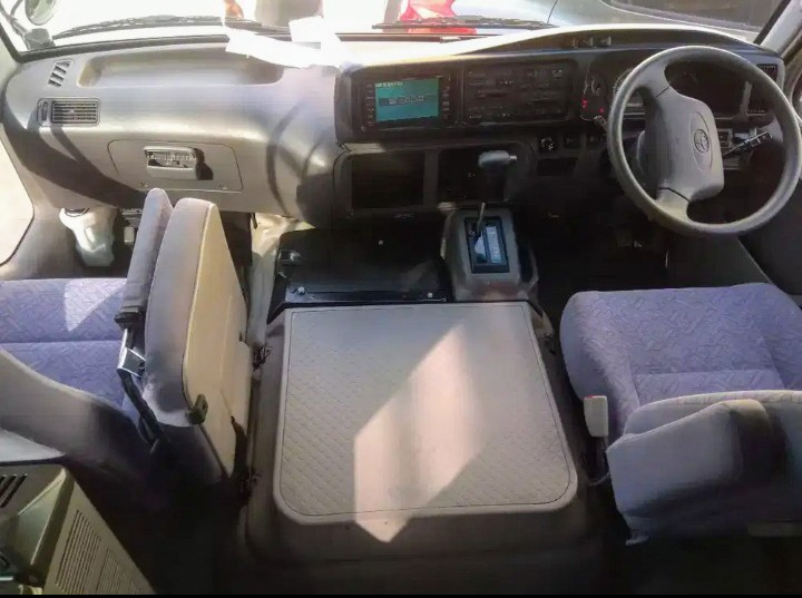 Toyota coaster B50 interior.